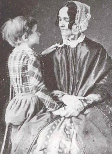 Jane, First Lady and her youngest son, Benjamin.